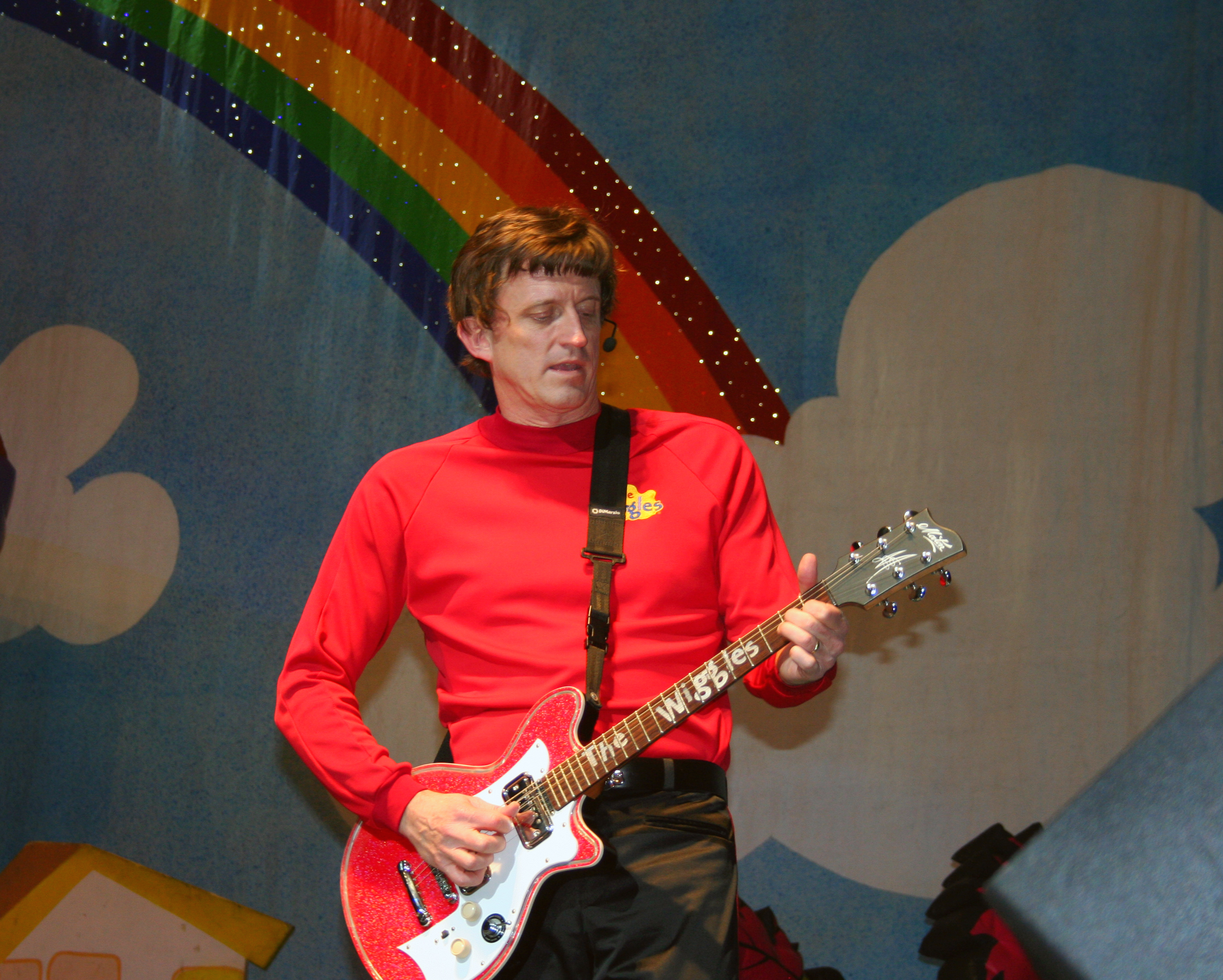 Murray Cook of The Wiggles Live @ the MCI Center - Nov. 8, 2007 Photo Taken by Anthony Arambula